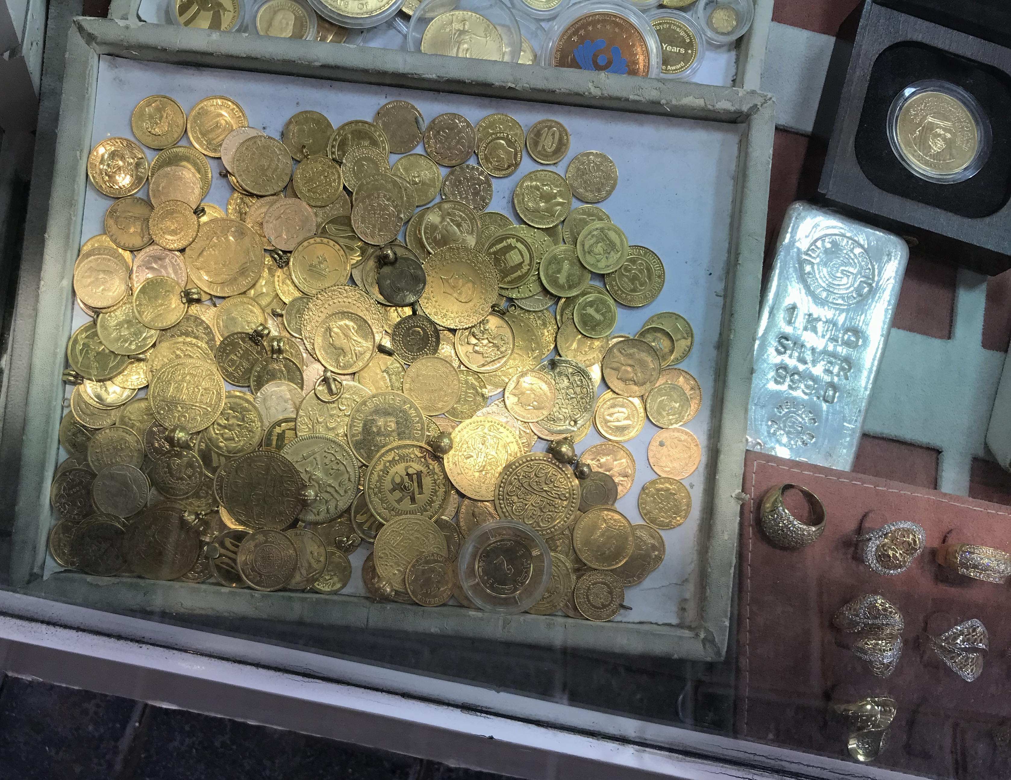 Gold coins and other precious items for sale at a dealer in the Dubai Gold Souk.